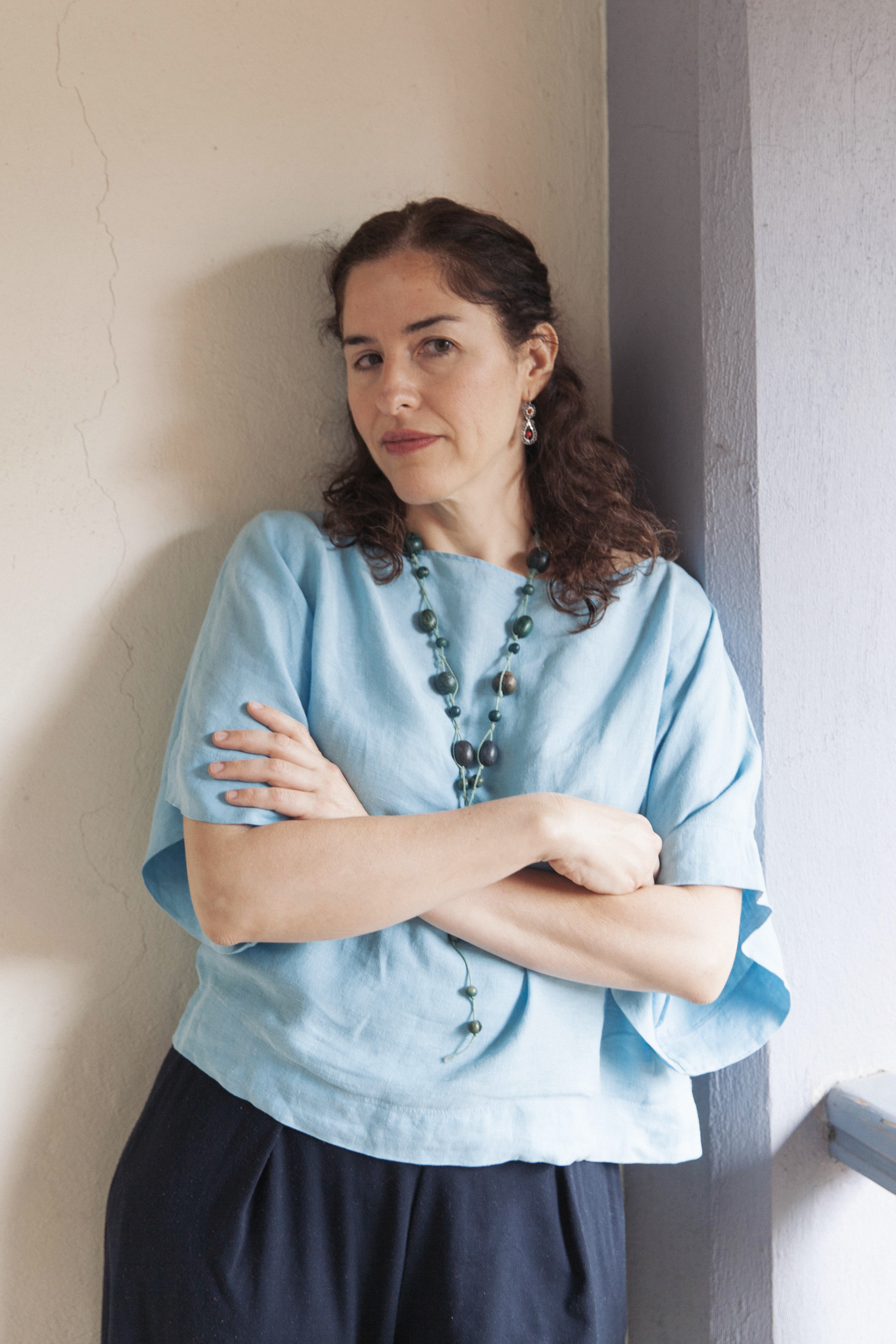 The Mexican writer Guadalupe Nettel at home in Coyoacan, Mexico City